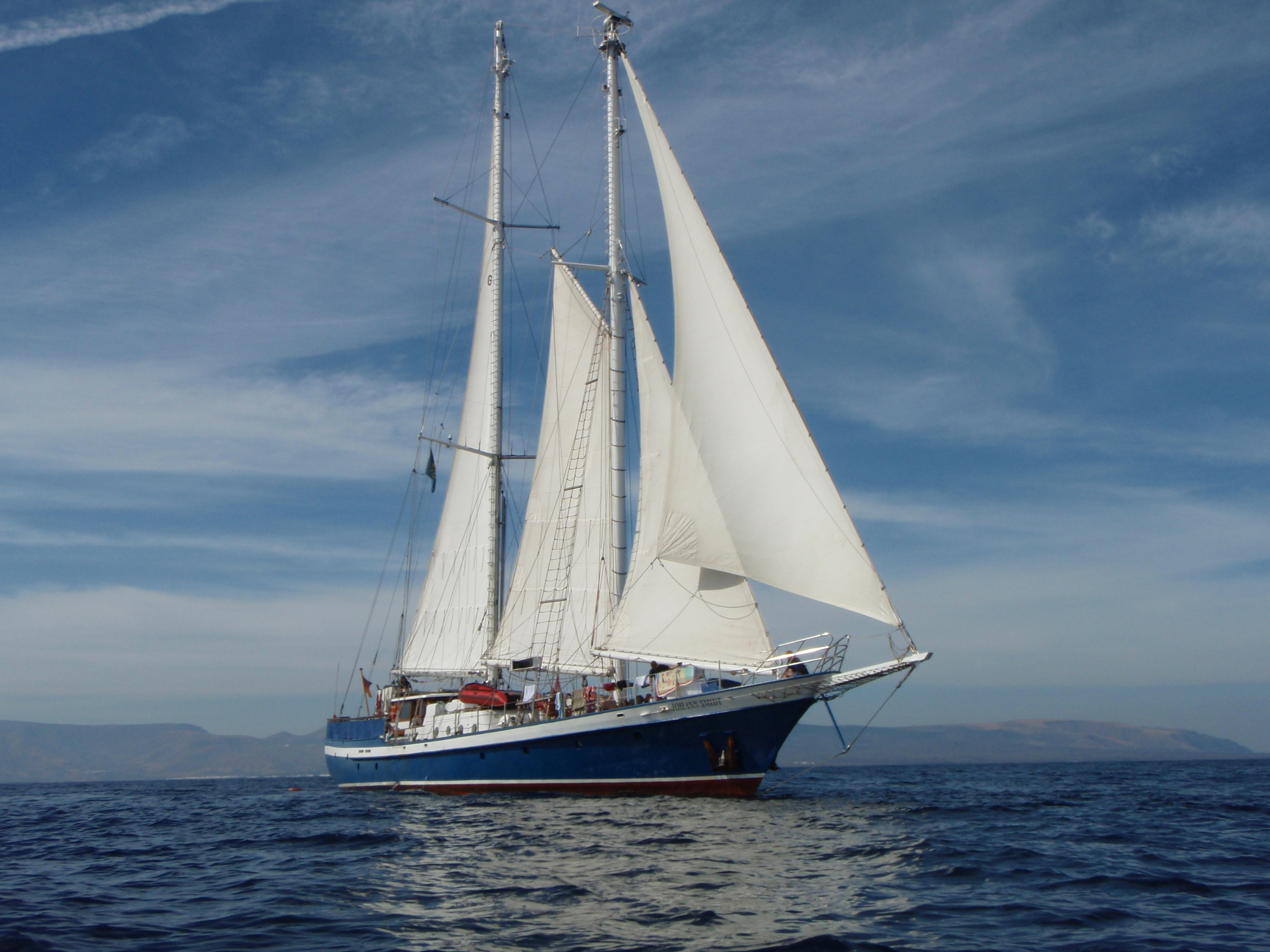 The german Sail training ship "Johann Smidt" several miles from the coast of Lanzarote. It visited the Canarys ont 11-18-2008 during the "High Seas High School" voyage.